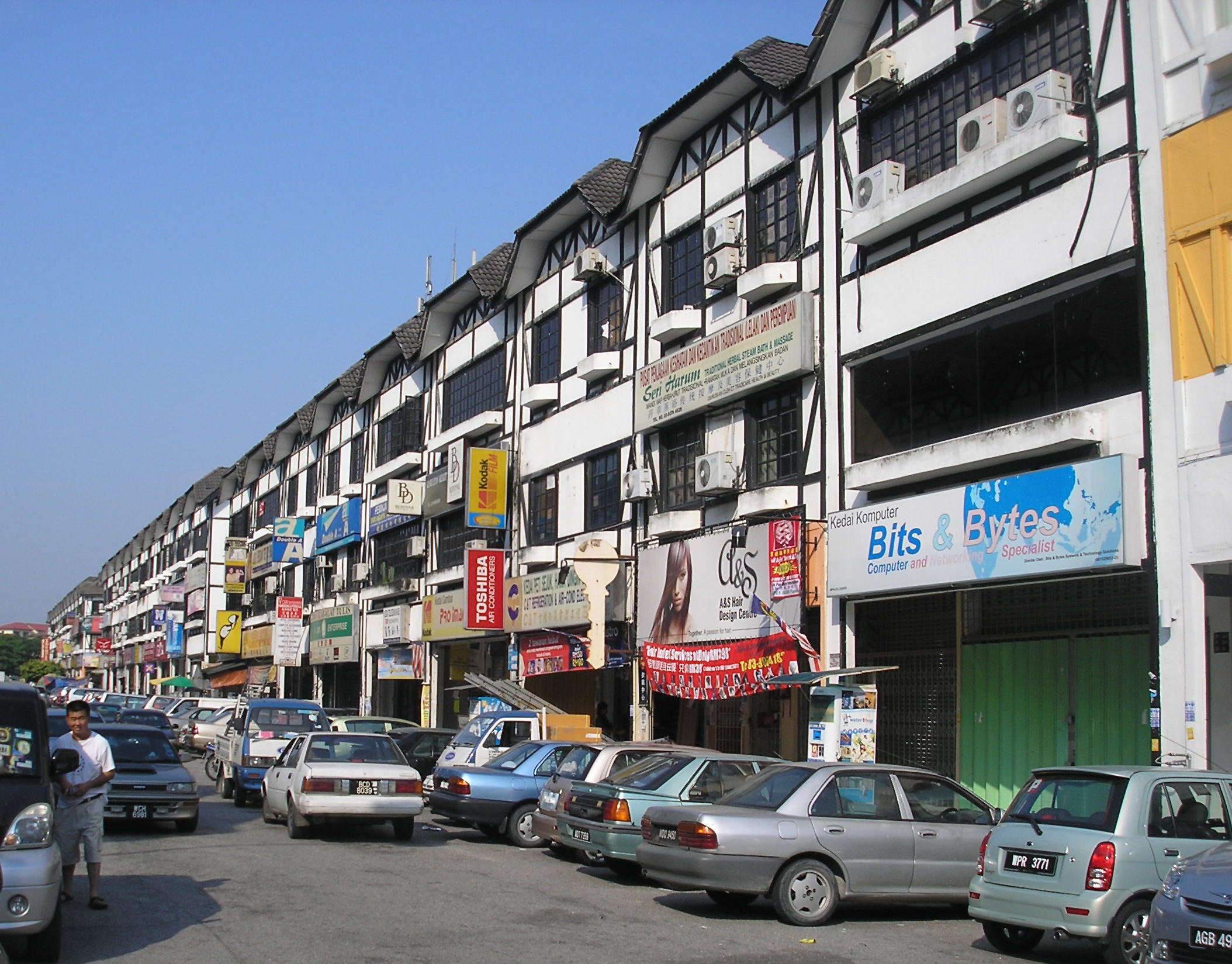 Several rows of three-storey Mock Tudor shopoffices (presumably built during the 1990s), in the Bandar Sungai Long, Selangor, Malaysia.